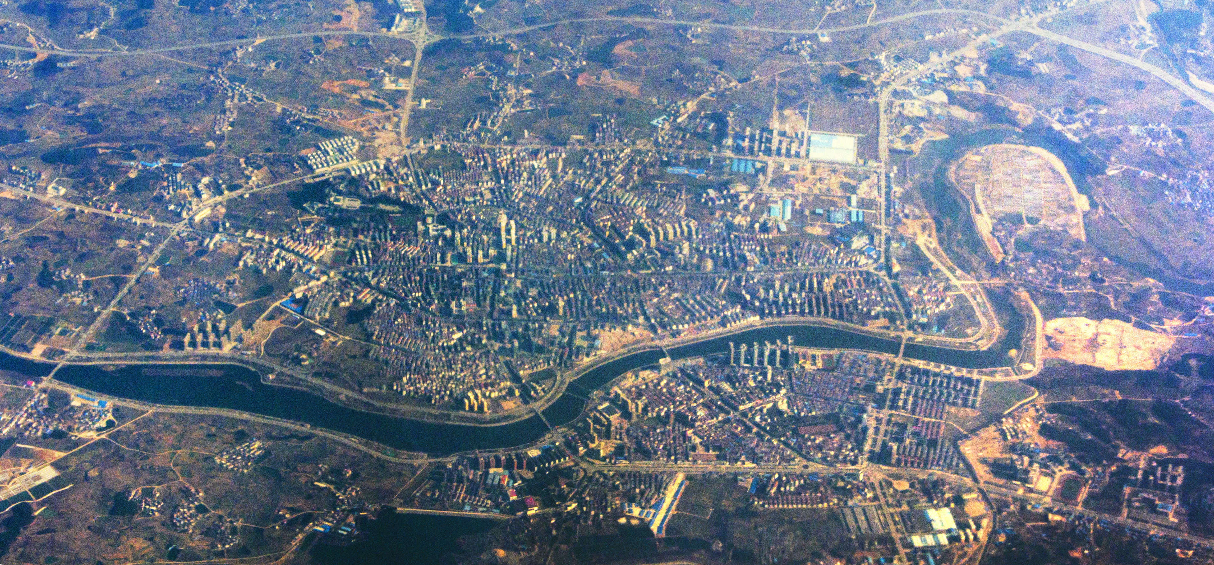 Taken on a plane.